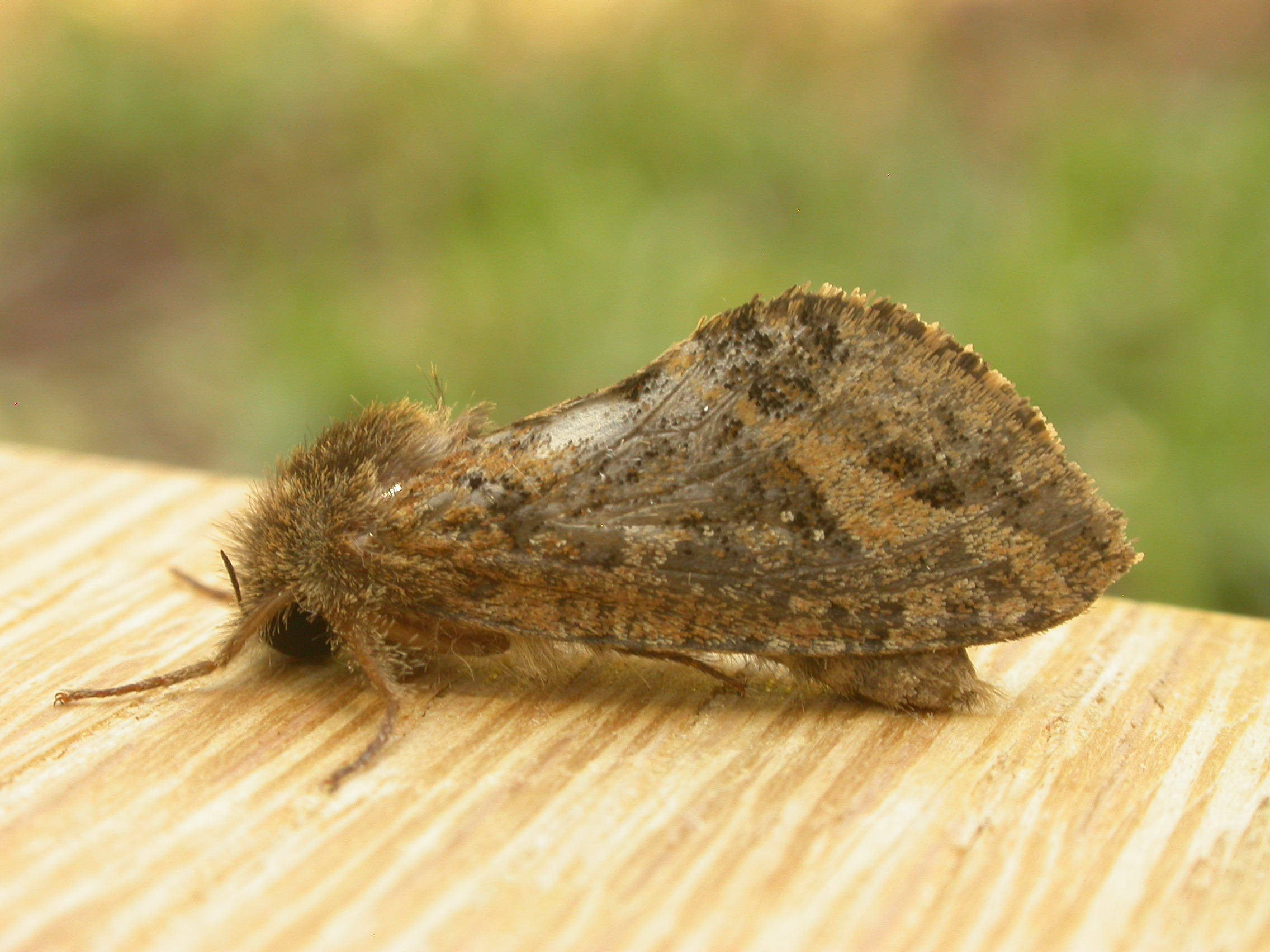 Oncopera brunneata (Tindale, 1933), male, to MV light, Blackheath, NSW, 15/16 January 2009